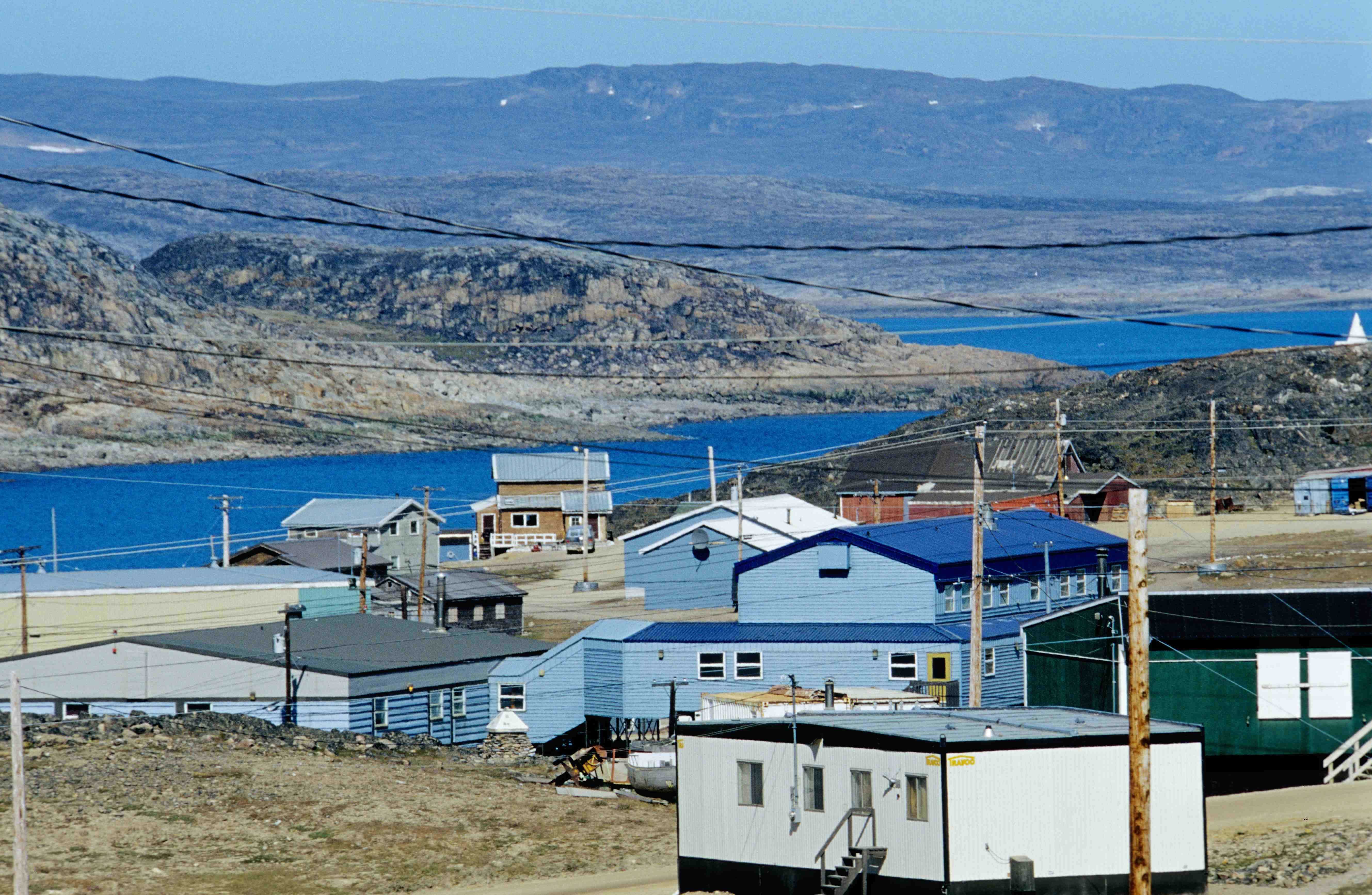 Summertime in Cape Dorset (background: Mallikjuaq Island, Foxe Peninsula)